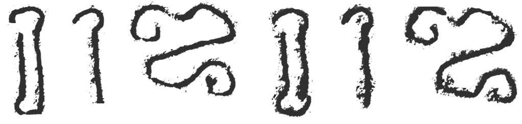 Inscription reading "Raja Raja", from the Tanjore big temple